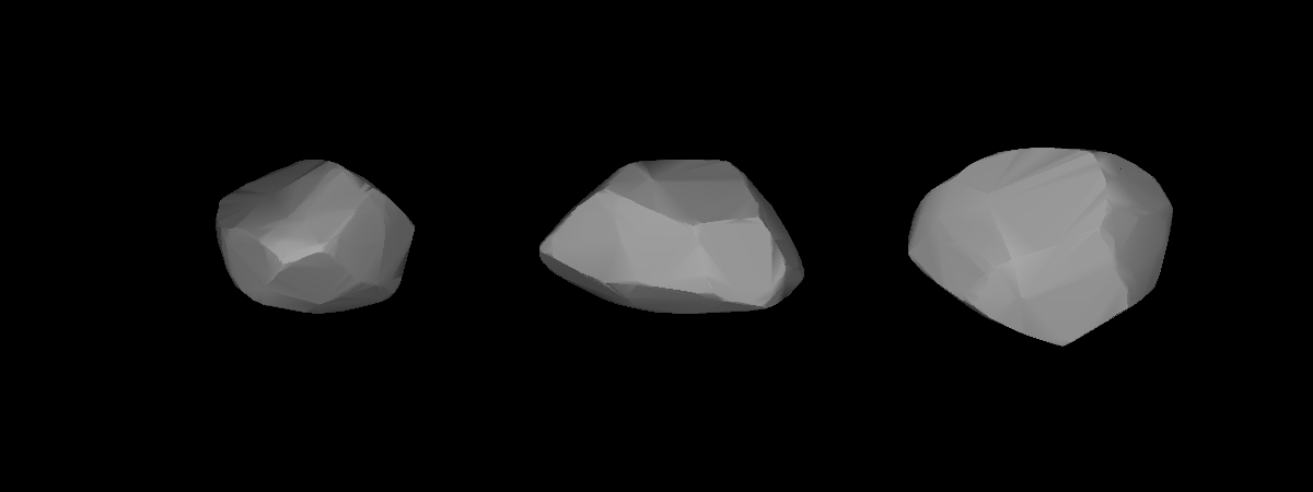 A three-dimensional model of 600 Musa that was computed using light curve inversion techniques.